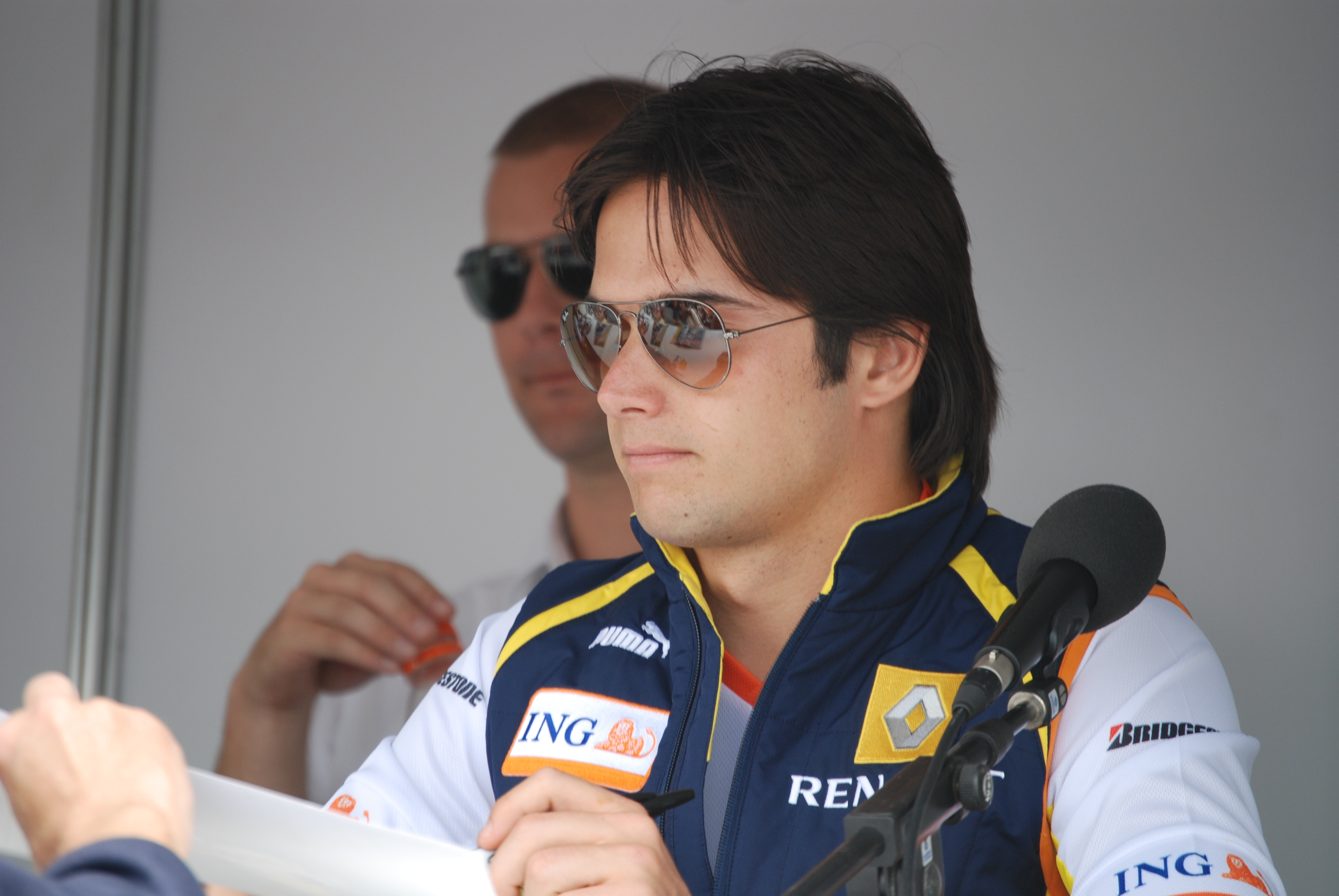 Nelson Angelo Piquet at the 2009 Australian Grand Prix.